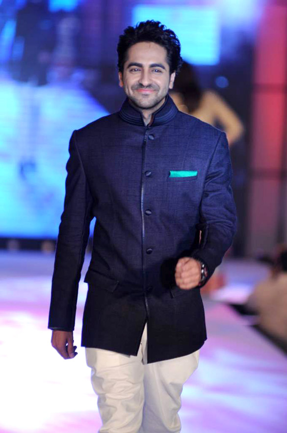 Ayushman Khurana walks for Manish Malhotra & Shaina NC's show for CPAA